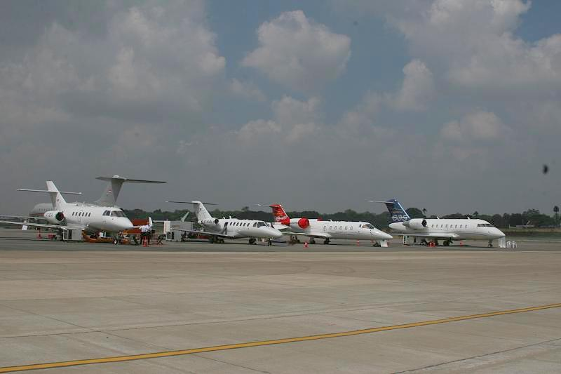 Business jets at Begumpet Airport, Hyderabad, India.